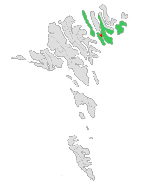 Location of the municipality of Klaksvík in the Faroe Islands, after the merger between the municipalities of Klaksvík and Húsar in 2017.